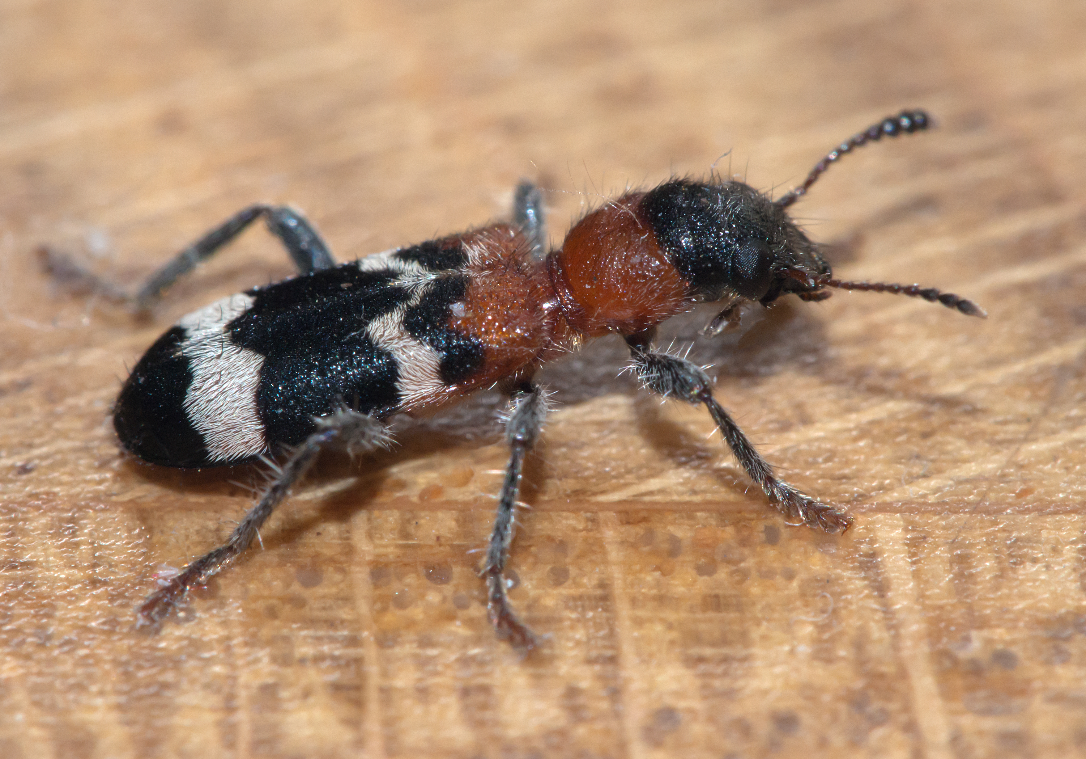 Thanasimus formicarius. Northern Germany, April 2013.